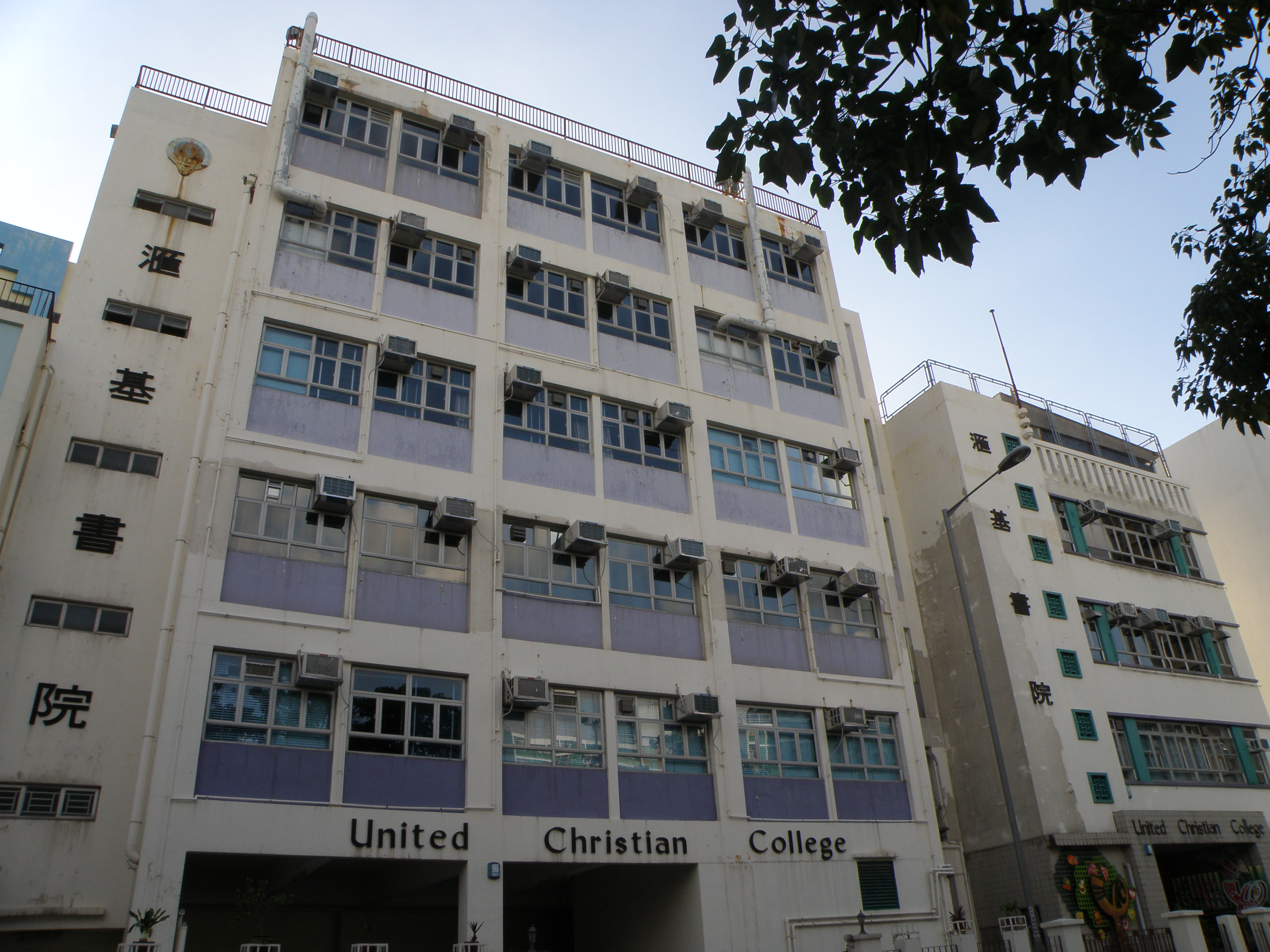 United Christian College in Shek Kip Mei, Hong Kong.